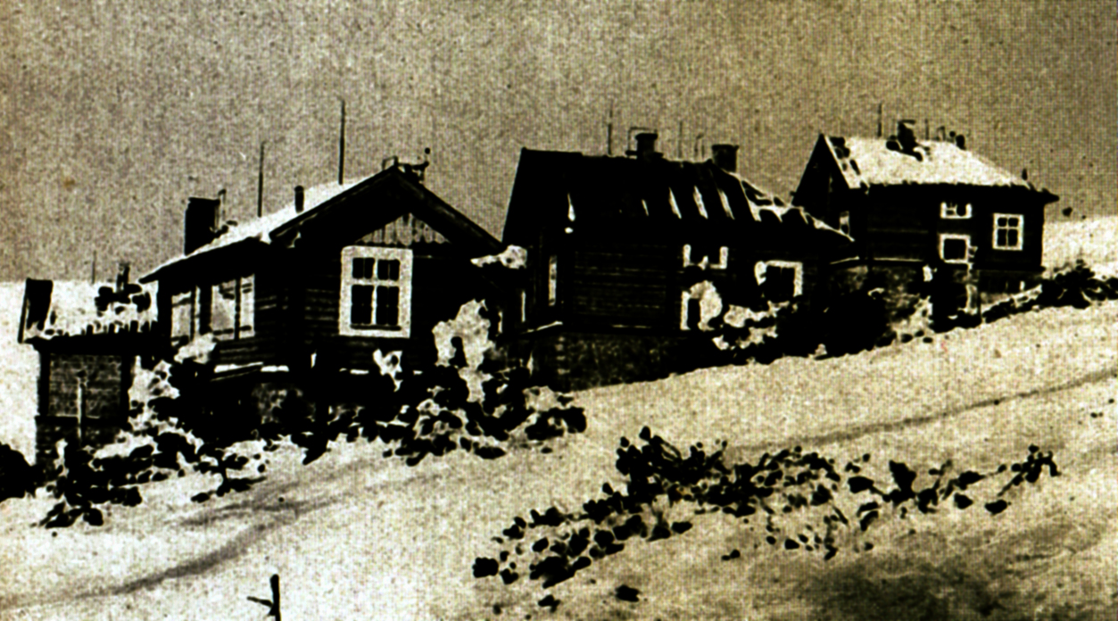 Research station Goldhöhe in the Bohemian mountains 1938.